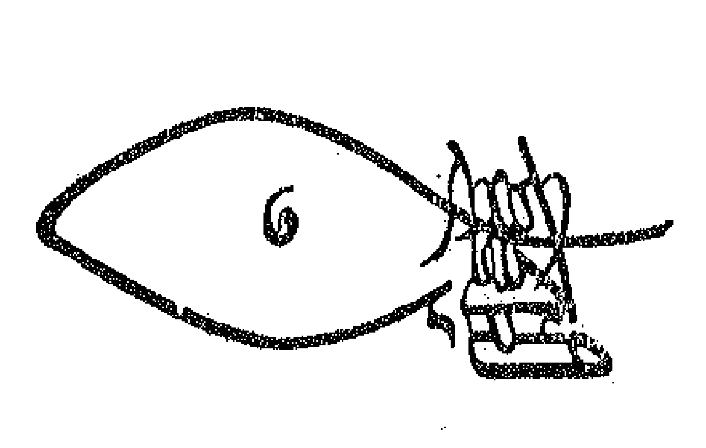 Signature of Khass Murad